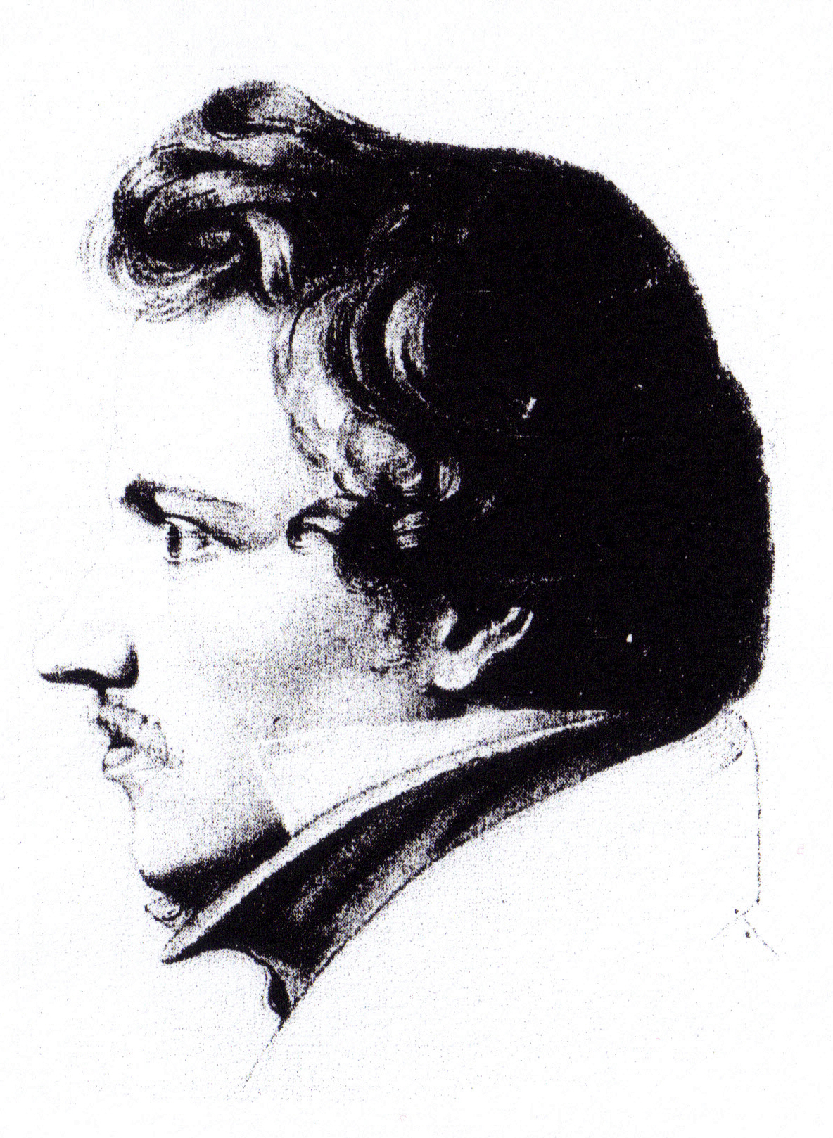 architect Scheppig as young man